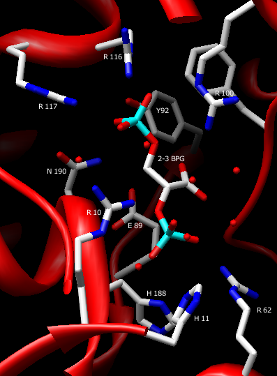 2-3 BPG in Active site with labeled residues that hold it there